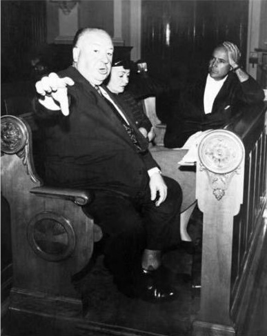 Photo of Alfred Hitchcock taken for film I Confess (1953). See also film still. No copyright notice.